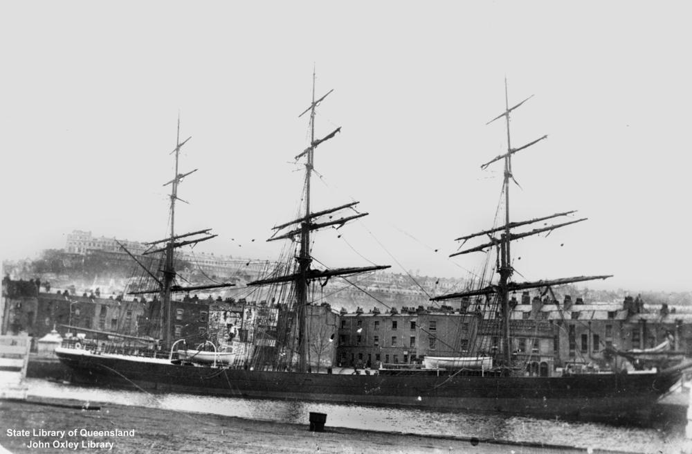 British Enterprise (ship)